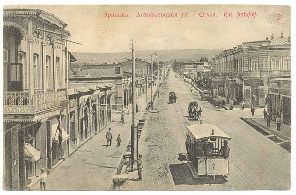 Երևանի Աստաֆյան, այժմ Աբովյան փողոցը Astafyan, now Abovyan street of Yerevan